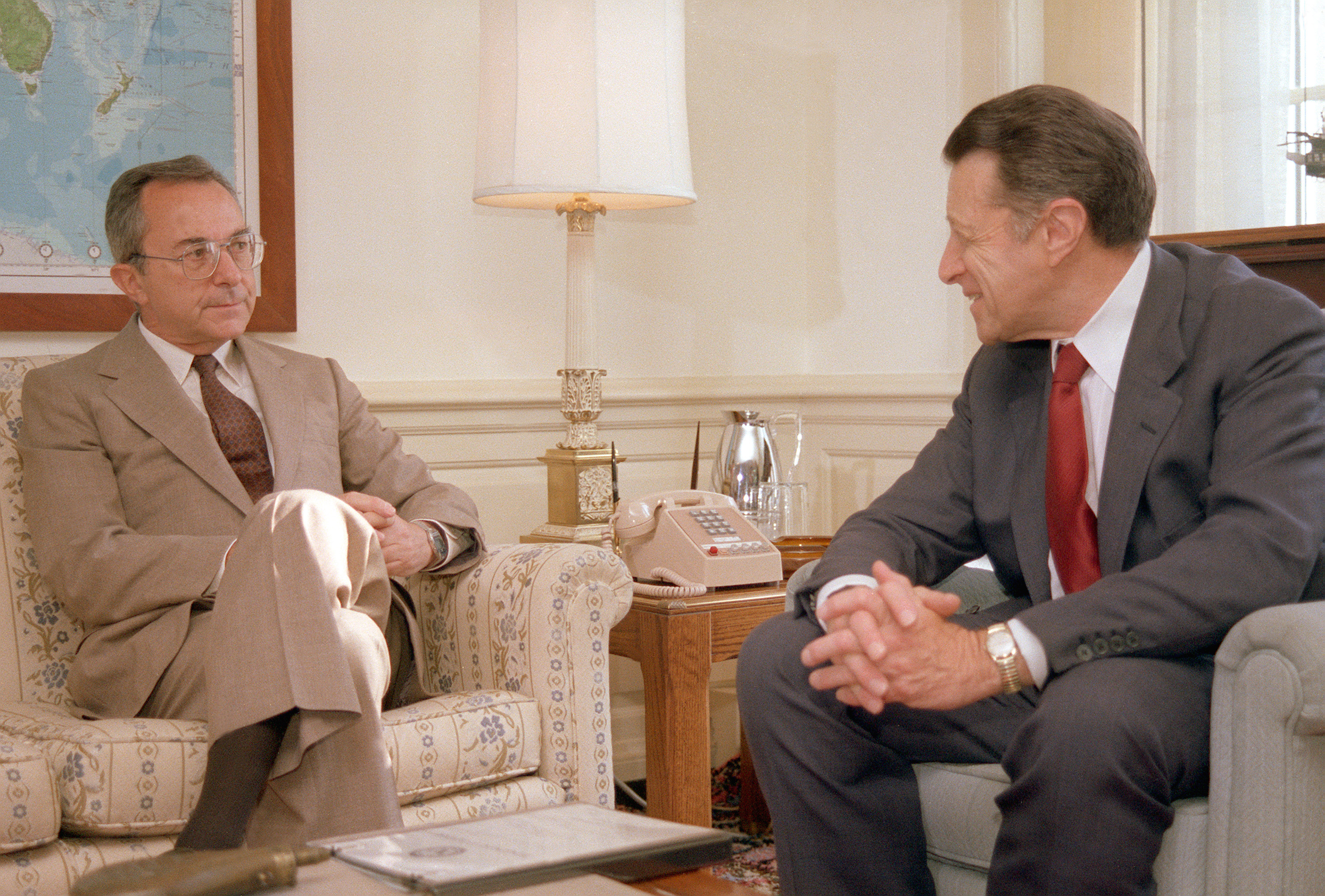 Secretary of Defense Caspar W. Weinberger meets with Minister of Defense Moshe Arens of Israel in the Pentagon. Location: WASHINGTON, DISTRICT OF COLUMBIA (DC) UNITED STATES OF AMERICA (USA)